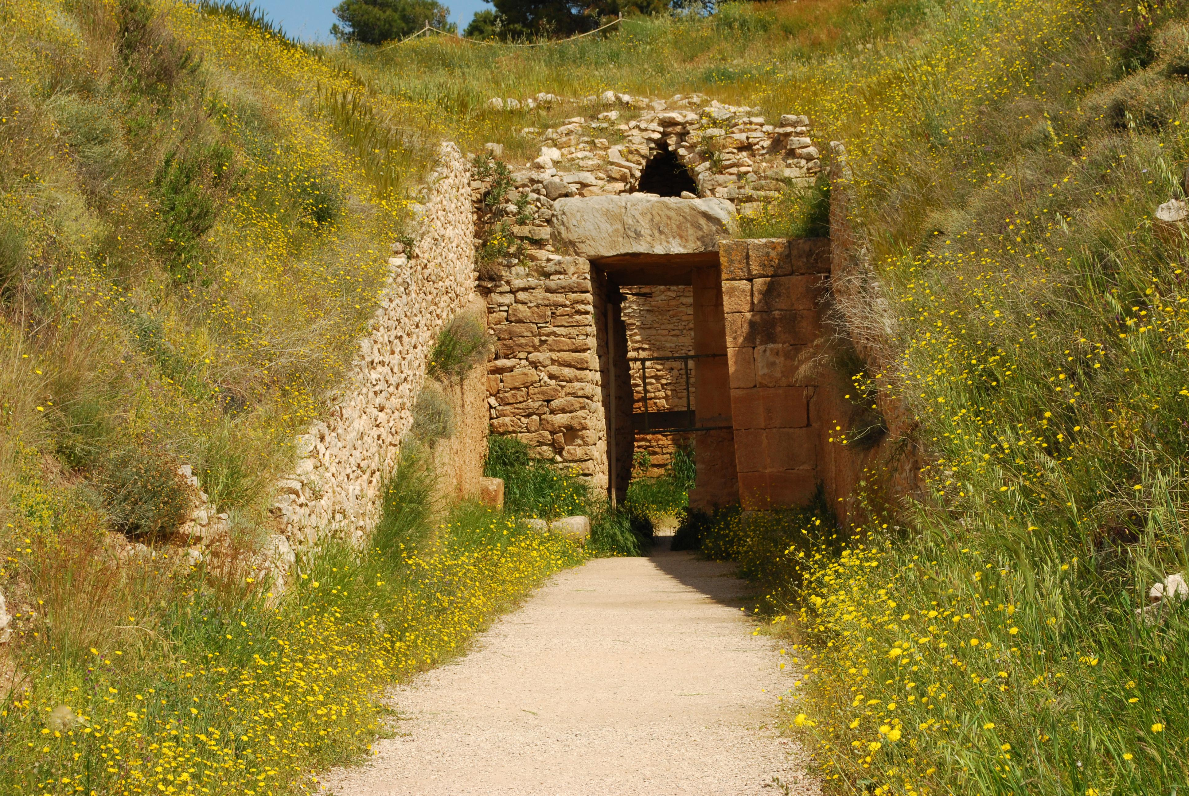 Mycenae : the Tomb of Aegisthus.